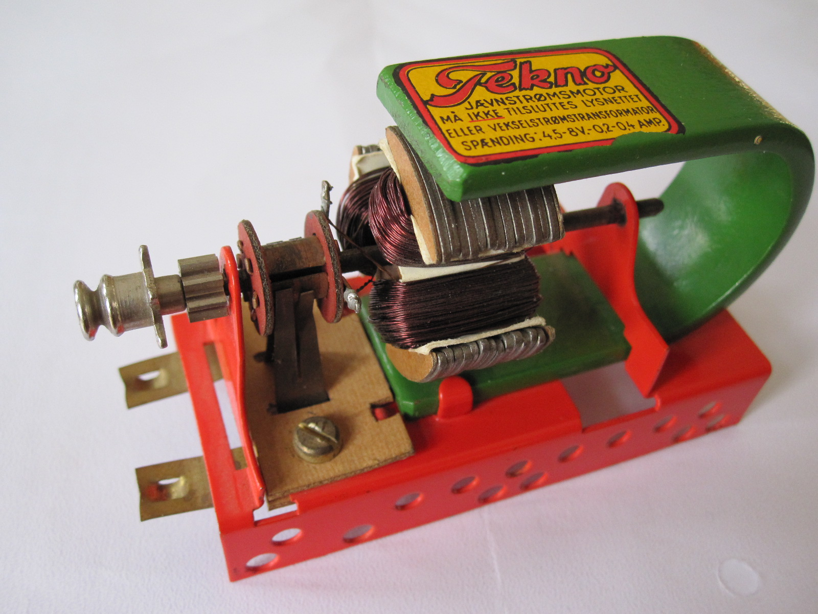 Toy electric motor from around 1948. PTO: sprockets, chain and belt. Engine baseplate measures 80x36mm in layout. Label: "Tekno. DC motor. Do NOT connect to the mains or AC transformer. Voltage: 4.5-8V. 0.2 to 0.4 AMP."